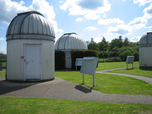 Bayfordbury observatory. Own work.